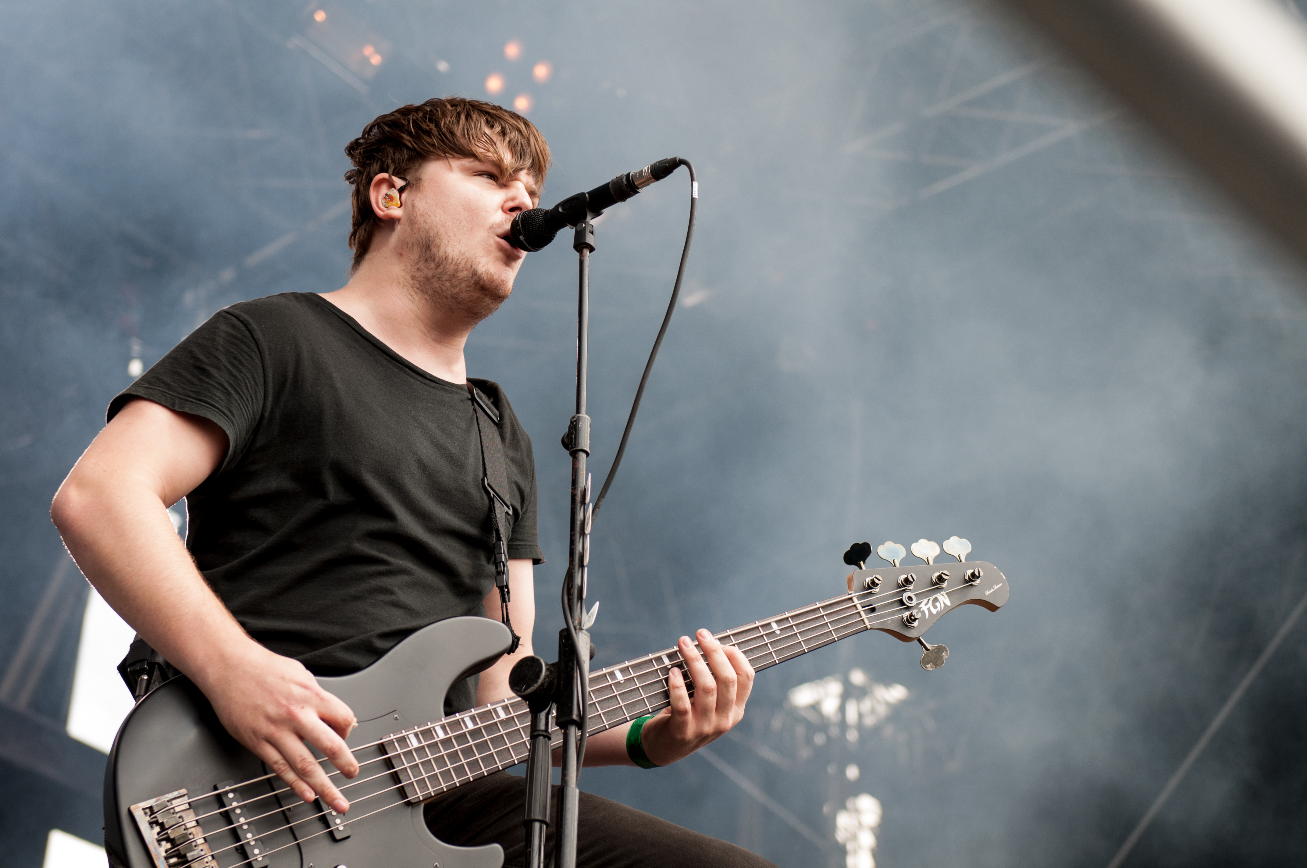 Of Mice & Men at Vainstream Rockfest 2014